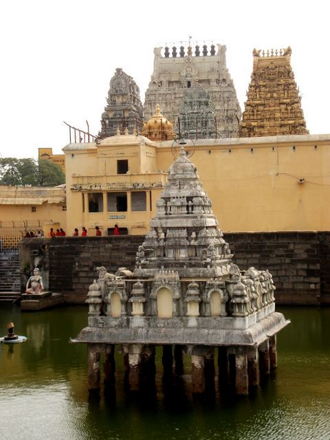 Some of the Gopurams of the Kanchi Kamakshi temple.